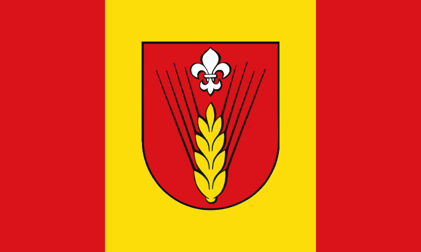 horizontal display flag of the German municipality of Glasin.